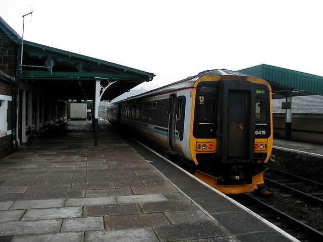 156415 calls at Barmouth railway station